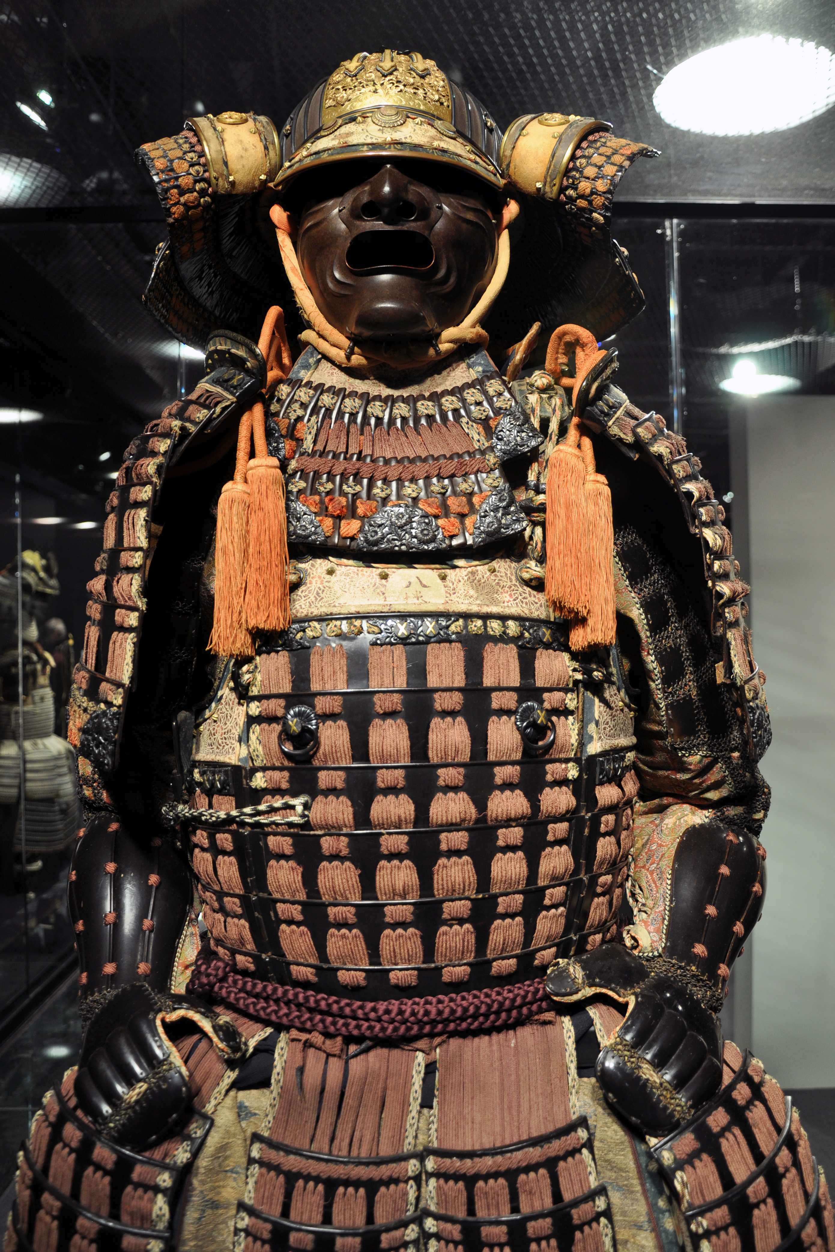 Armour (mogamido tosei gusoku ), 17th or 18th century, Edo period, and helmet, Muromachi period, about 1530, Japan . Ann and Gabriel Barbier-Mueller Museum, Dallas (Texas) ; the photograph was taken during an exhibition in the Musée des Arts Premiers in Paris.